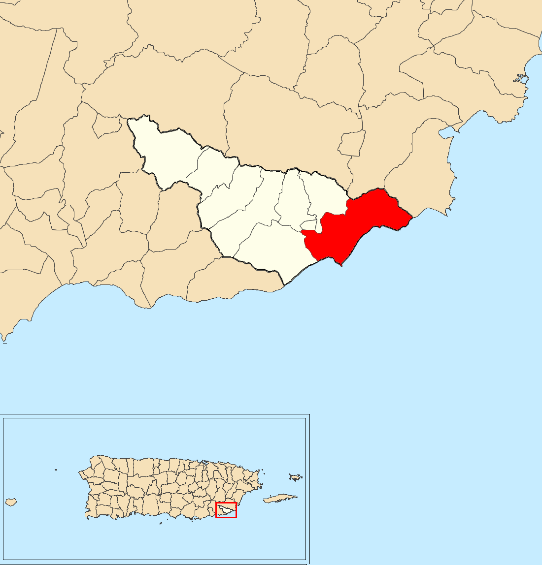 Emajagua, Maunabo, Puerto Rico locator map